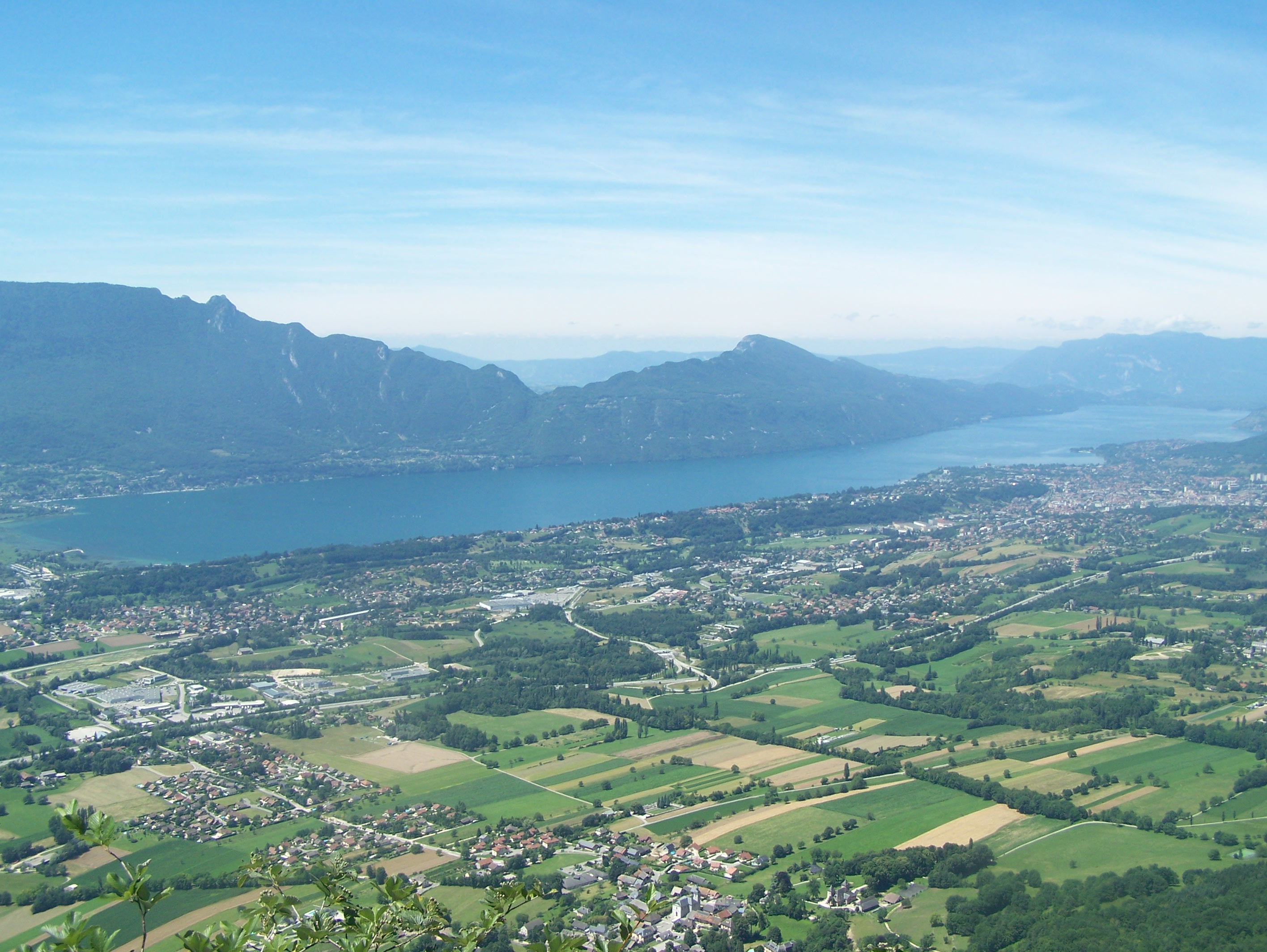 The entire Lake of Bourget, the biggest and deepest natural lake of France (Savoie) here seen from the heights of Pragondran.